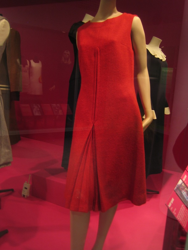 Mary Quant dress, Victoria and Albert Museum